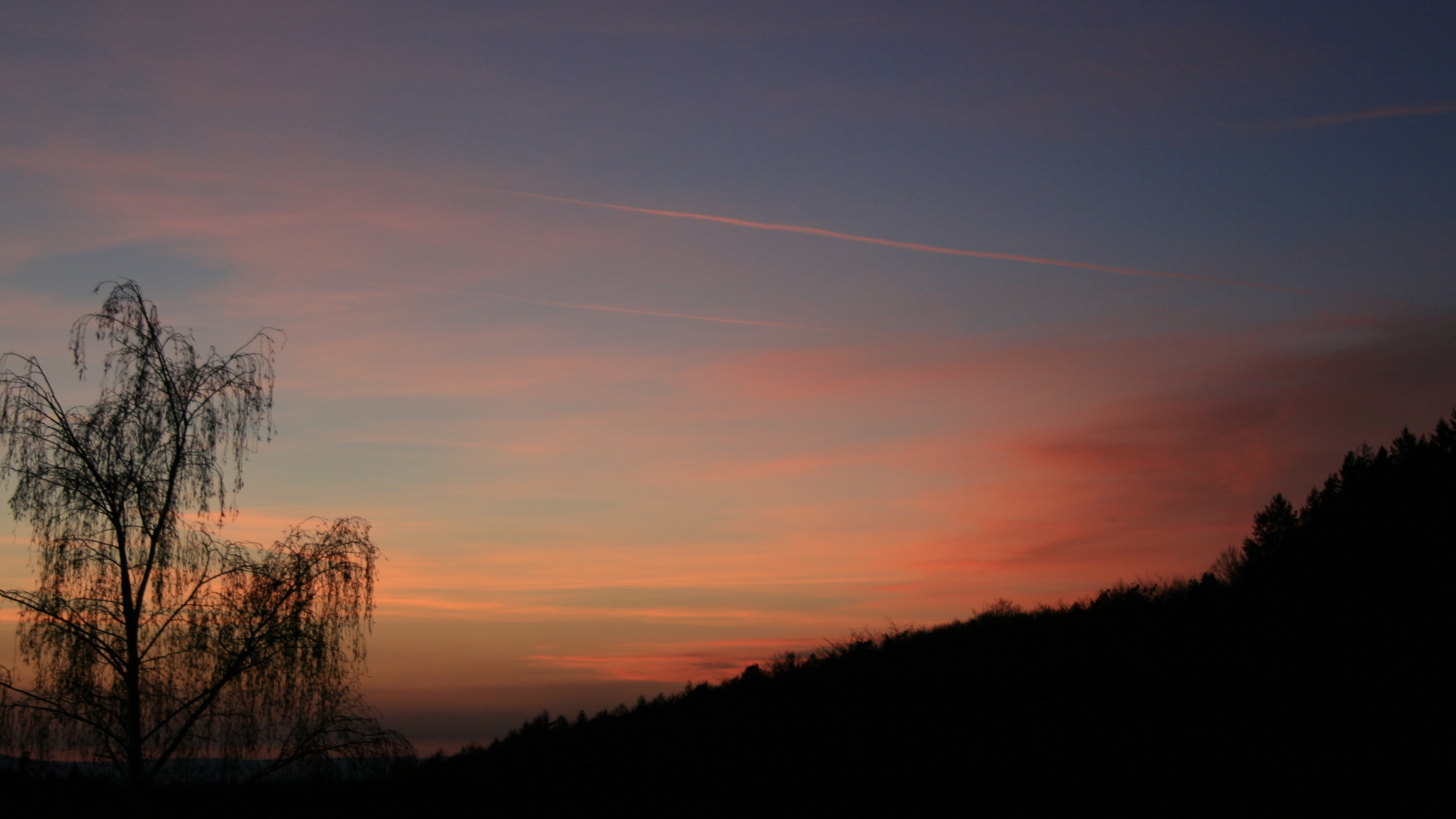 A nice Sunset View seen from the Watertower in Daisendorf